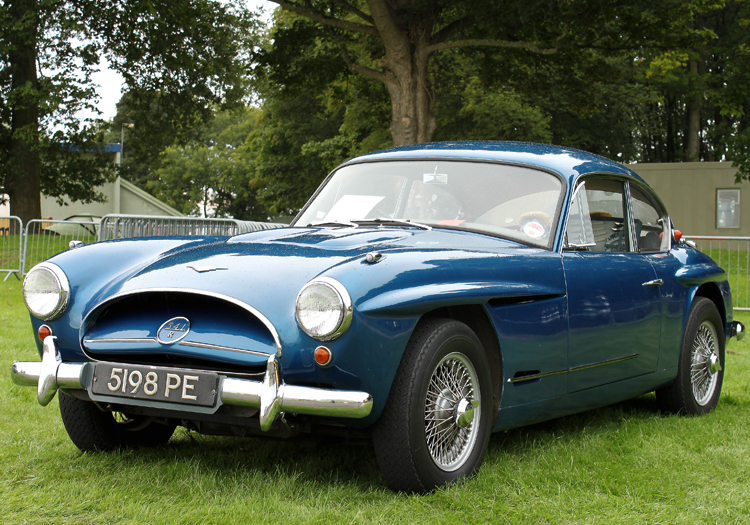 Jensen 541R